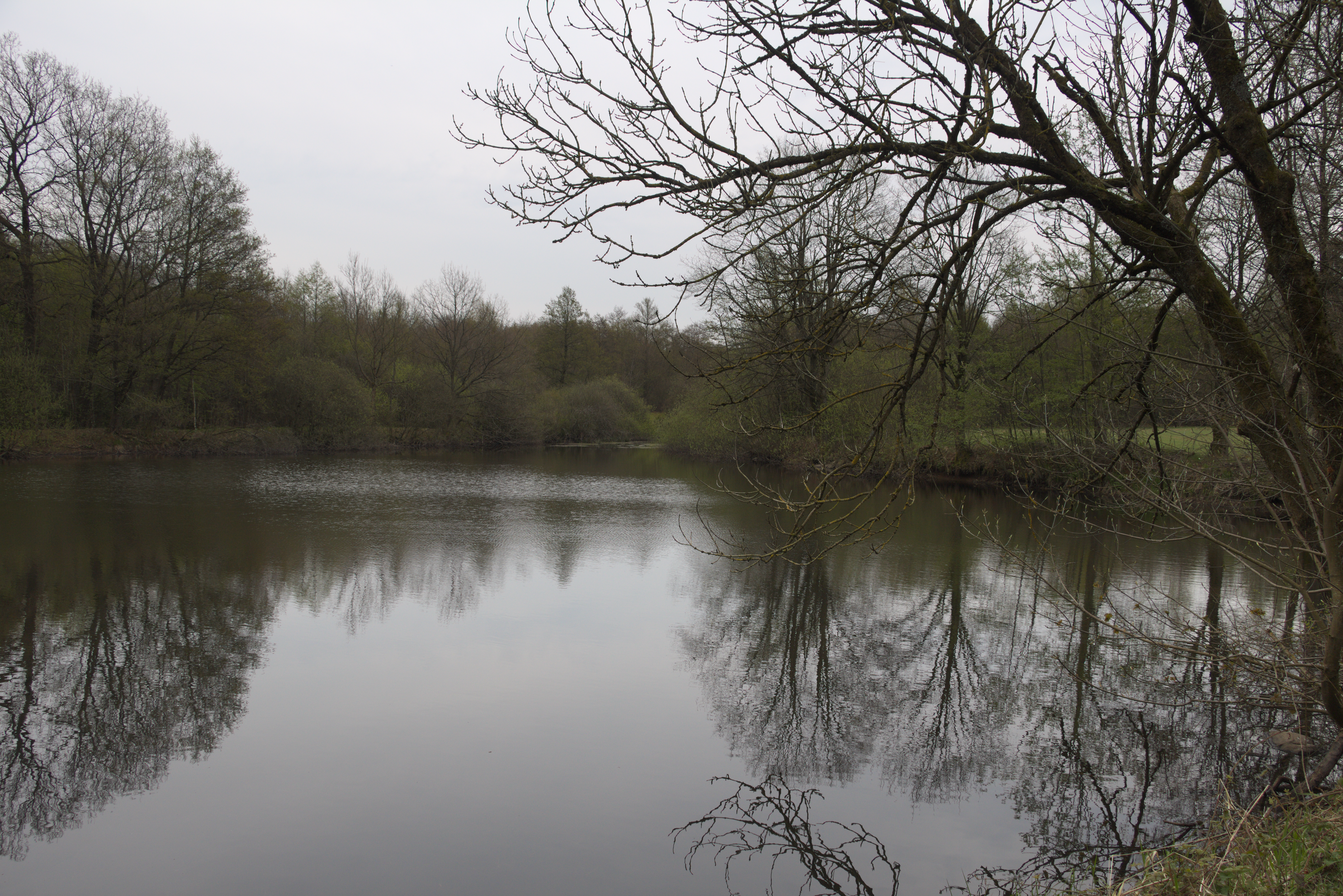 Rothenbach (pond), part of Site of Community Importance "Vogelsbergteiche und Luederaue bei Grebenhain" north of Rothenbachteich, Bermuthshain, Grebenhain, Hesse, Germany